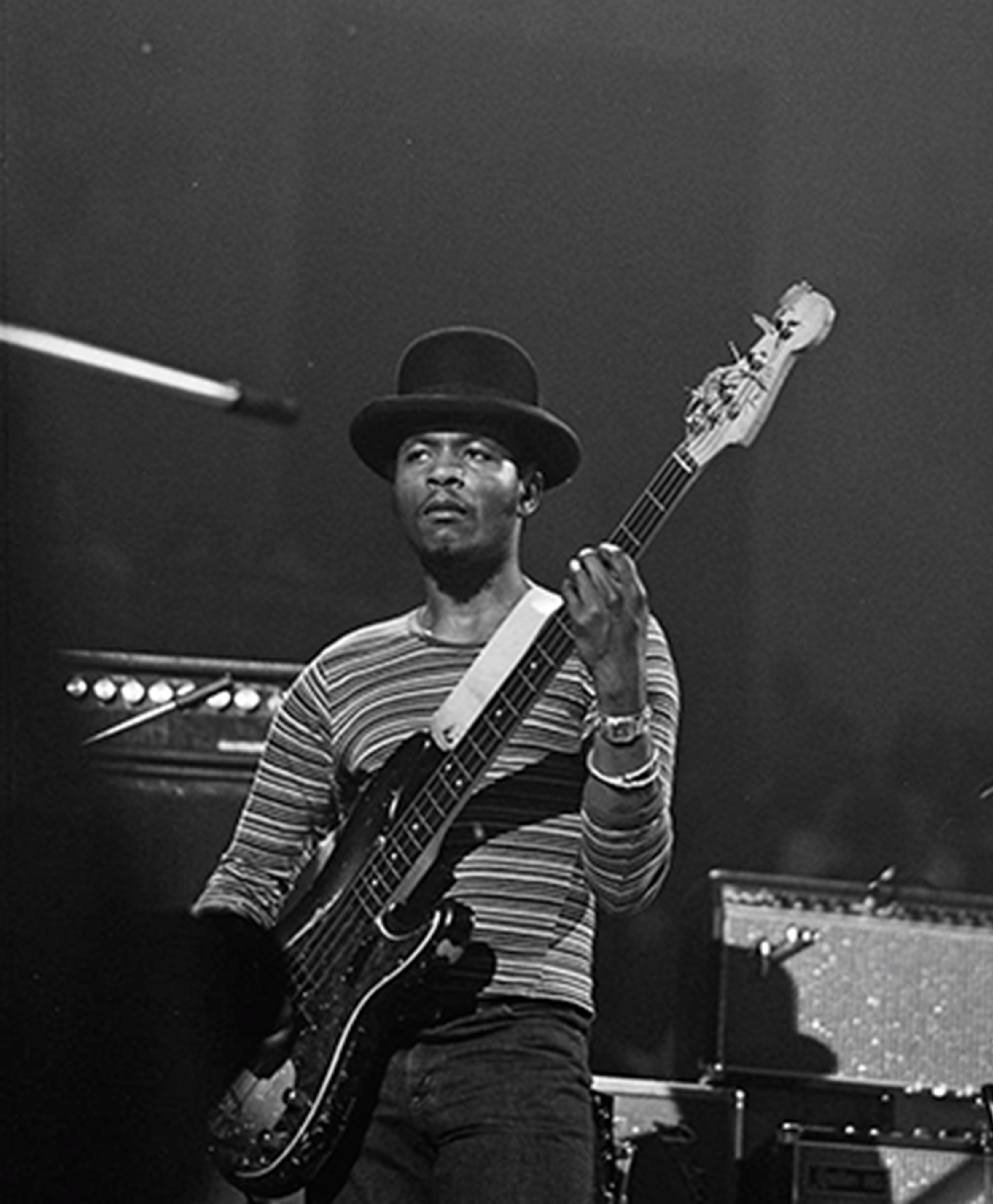 Calvin "Fuzzy" Samuel(s), bass player with Manassas, during a 1972 Dutch TV TopPop broadcast